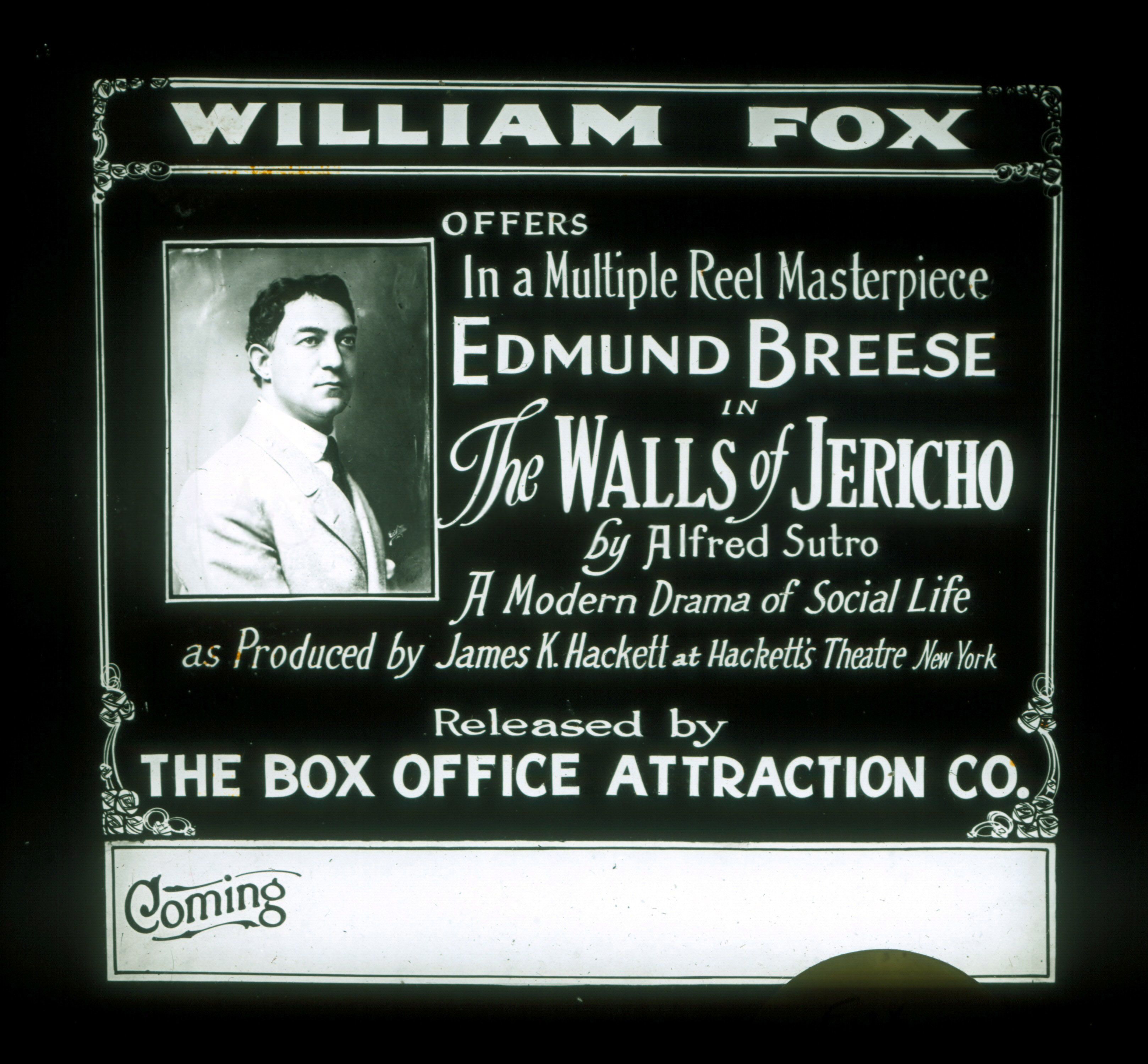 This is a lantern slide for the 1914 film The Walls of Jericho.